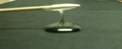 Corn syrup on a black surface being lifted by a toothpick.